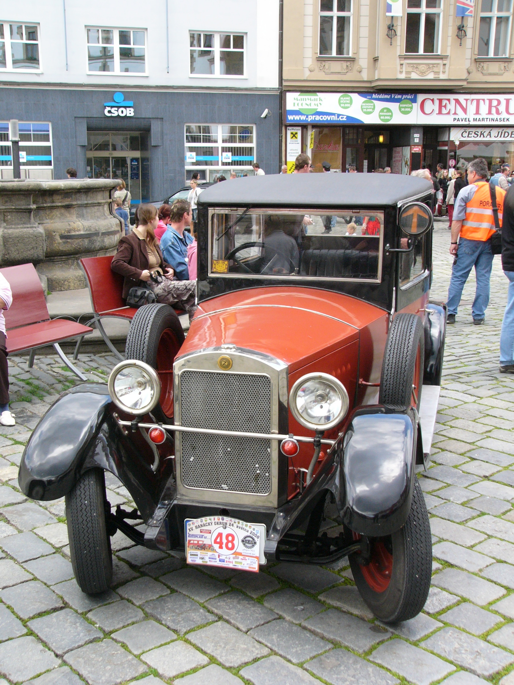 Zbrojovka Brno Z18 Express. This certain car was manufactured in 1929.